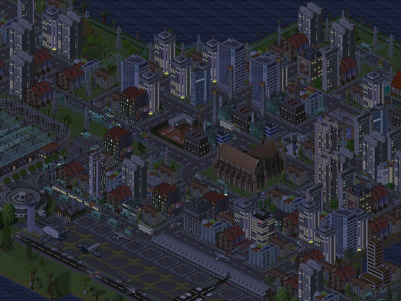 Simutrans pak64 city at night